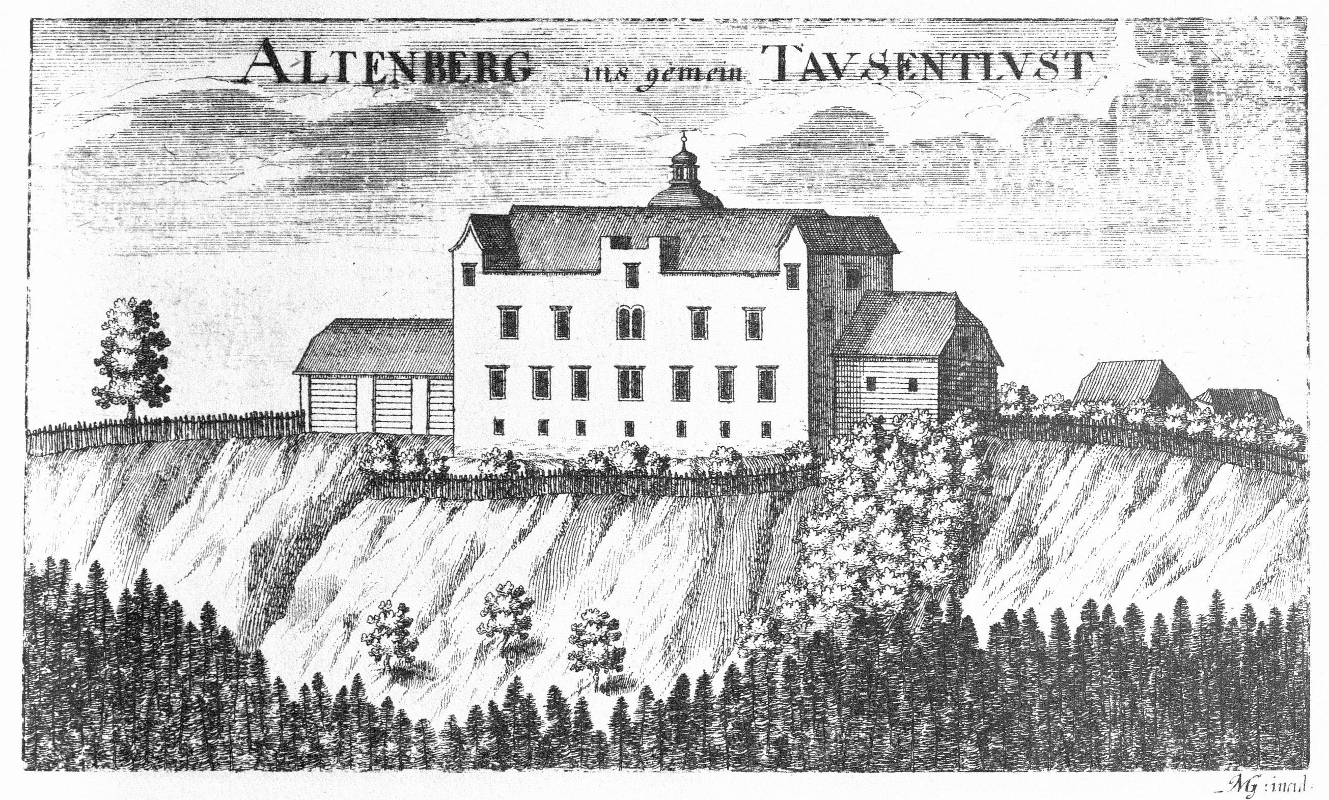 Schloss Tausendlust in Hitzendorf, Styria, Austria